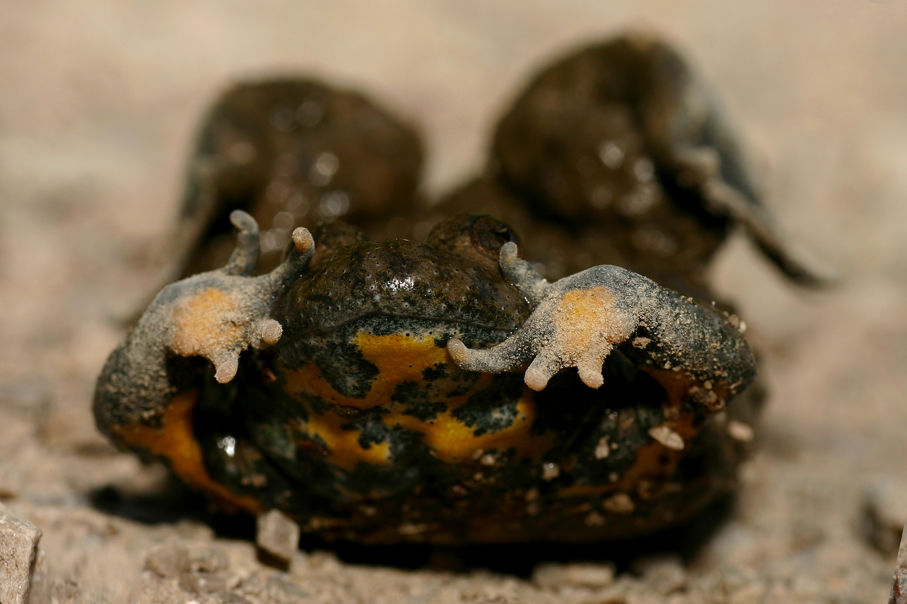 Yellow-bellied toad (Bombina variegata) in typical defence posture. Photographed near Gruberau (Lower Austria).